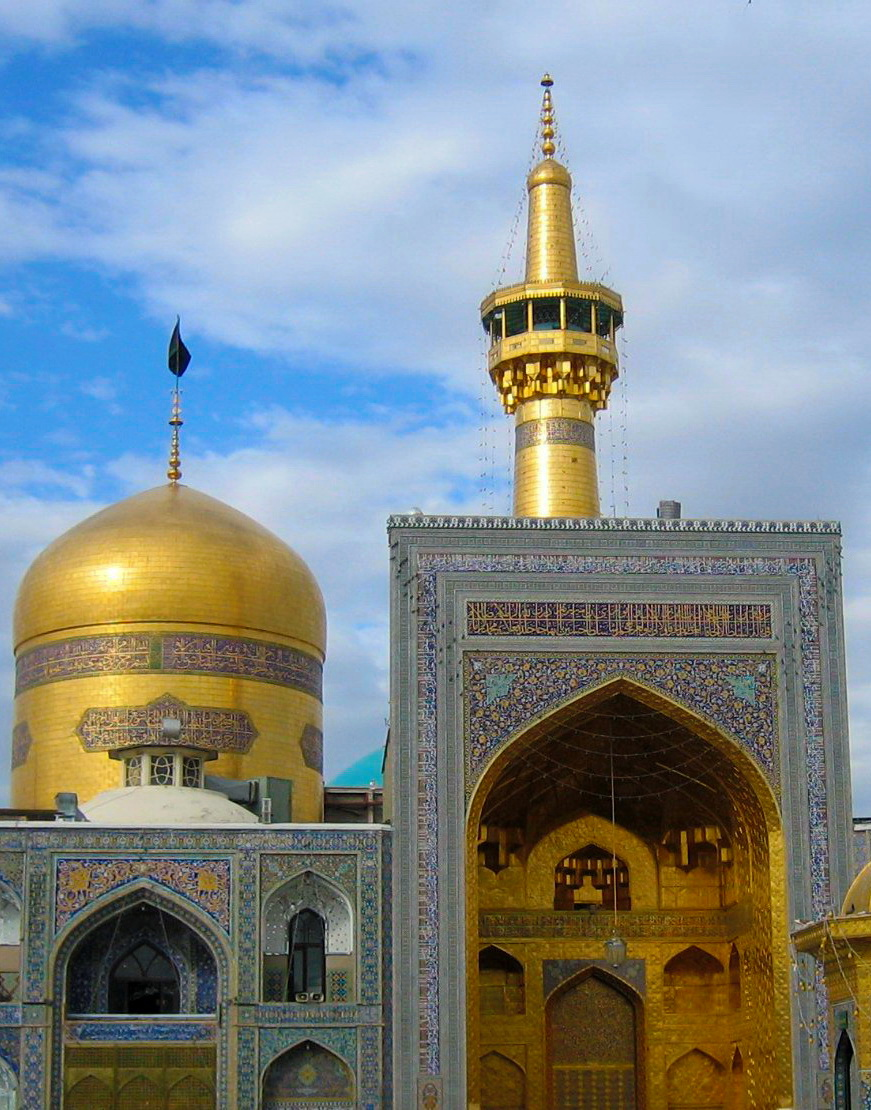 Imam reza shrine in Mashhad (Longitudinal Cropped)